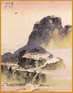 8 Themes of Taiwan elected in 1927